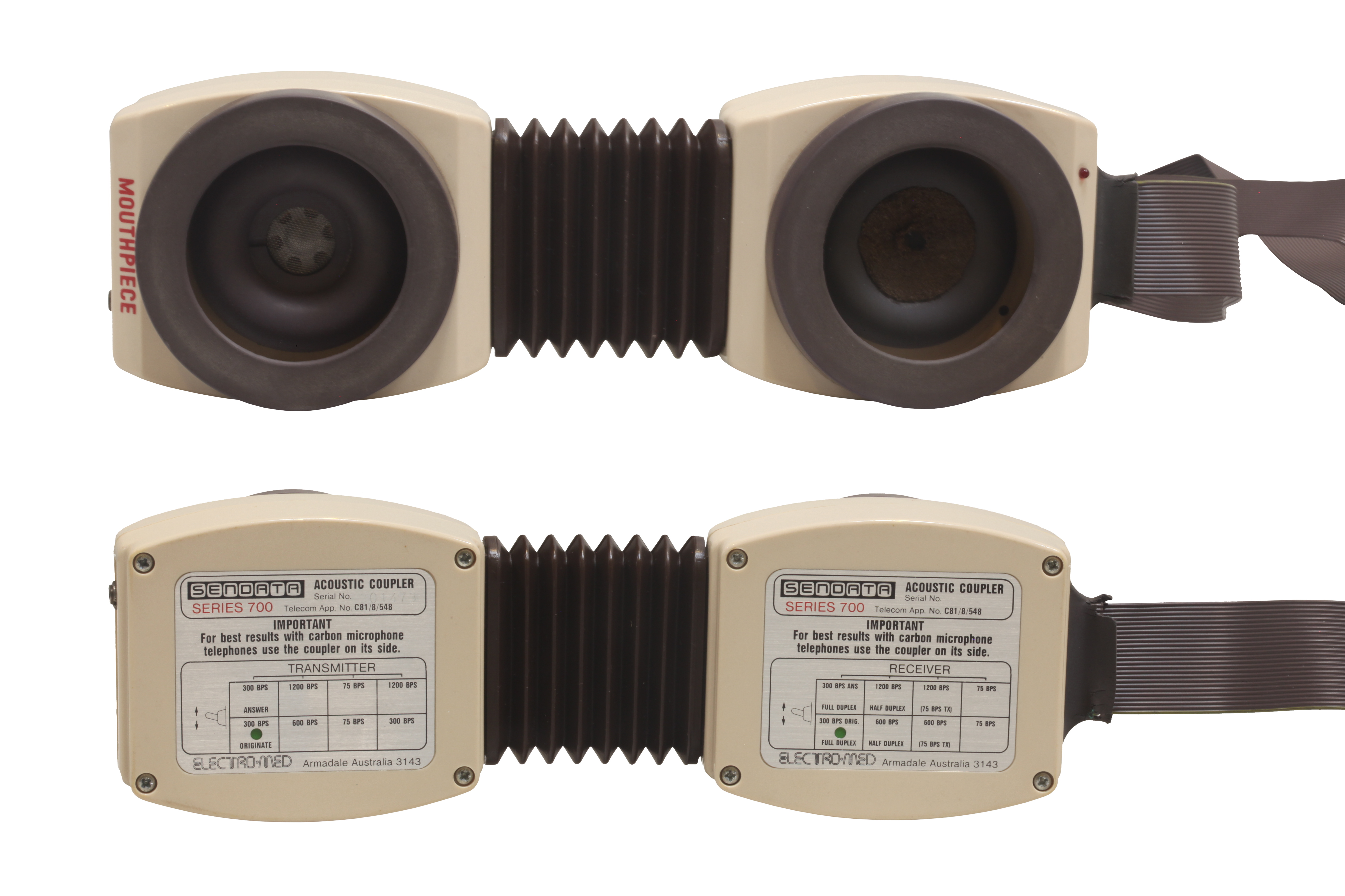 Electromed Sendata Series 700 Acoustic coupler, mid-1970s. On display at the Musée Bolo, EPFL, Lausanne. The making of this document was supported by the Musée Bolo The making of this document was supported by Wikimedia CH. (Submit your project!) For all the files concerned, please see the category Supported by Wikimedia CH.